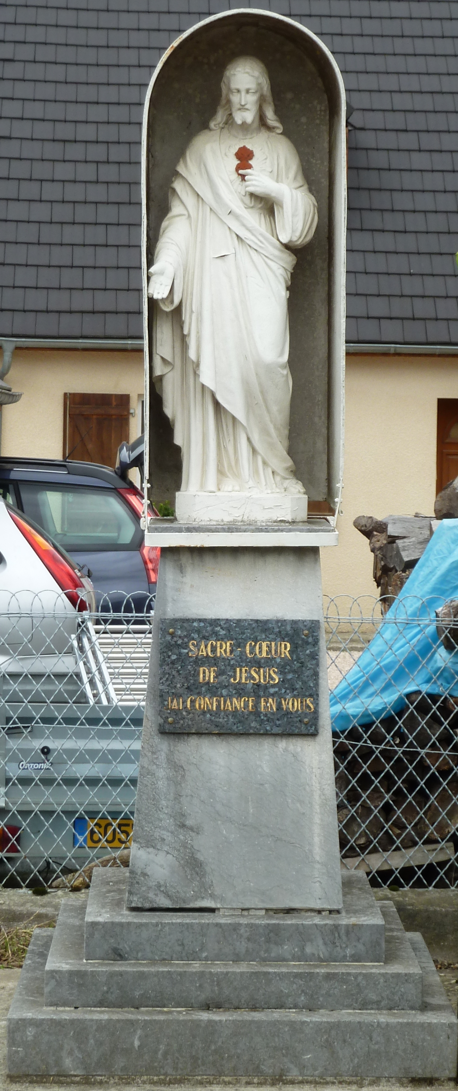 Religious monument in Vielle-Adour, France